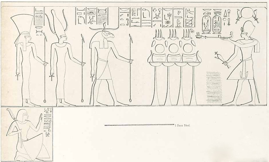 A stela of Seti I, executed in sunk relief, situated Jebel Dosha, between the Second and Third Cataracts of the Nile in Nubia (Sudan); Seti I is offering to the deities of the cataract region, Khnum, Satis and Anket; below on the left is depicted a kneeling figure of Seti I’s viceroy of Kush, Amen- emipet